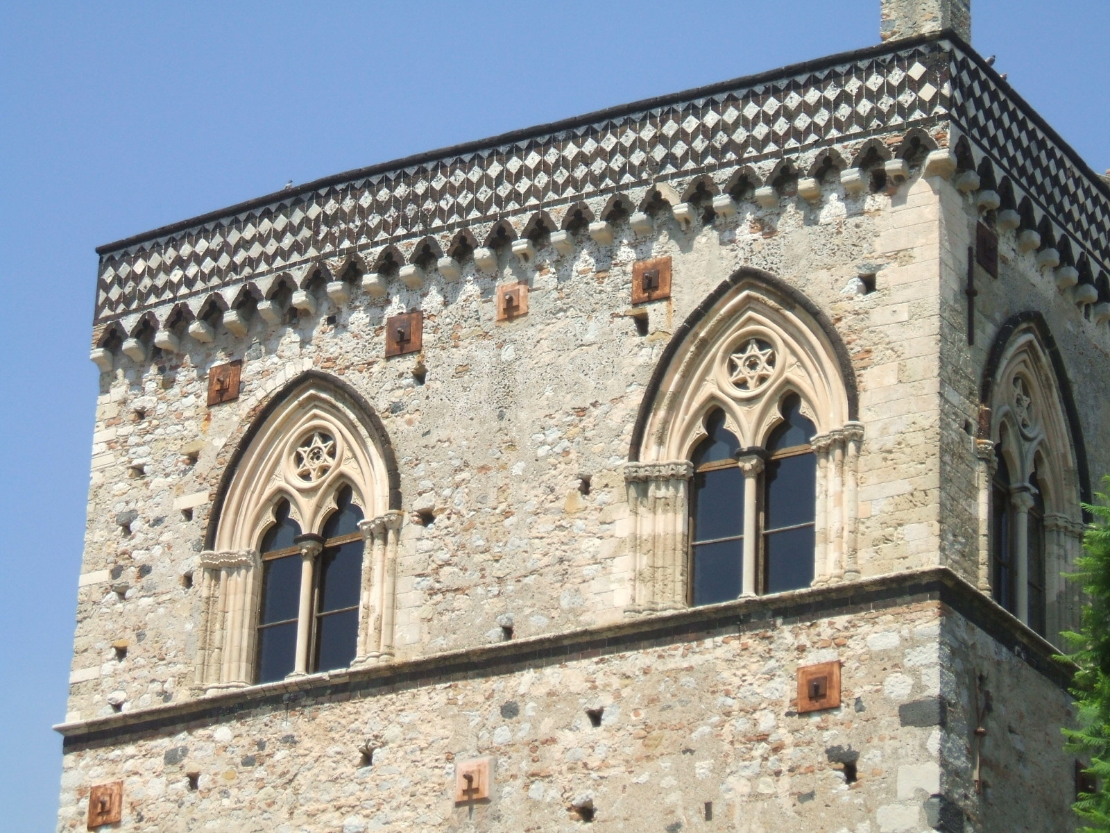 Palazzo Duchi di Santo Stefano of Taormina: gothic palace build in the XIIIth and XIVth centuries, embellished by a limestone and lava frieze.